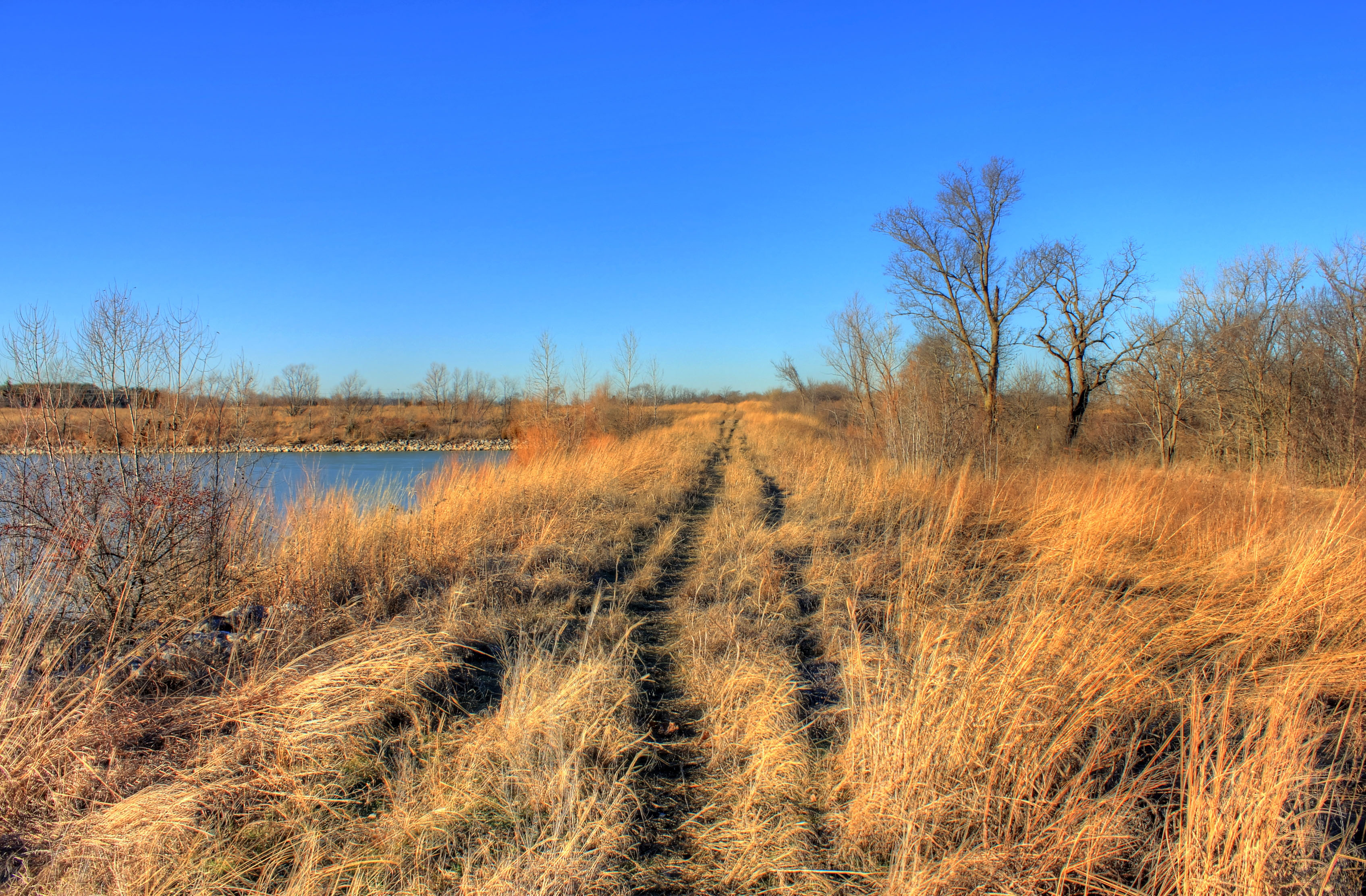 Pictures of the conservation area around the town of Weldon Springs within the greater St. Louis Area. Part of the Hiking trail near the lake